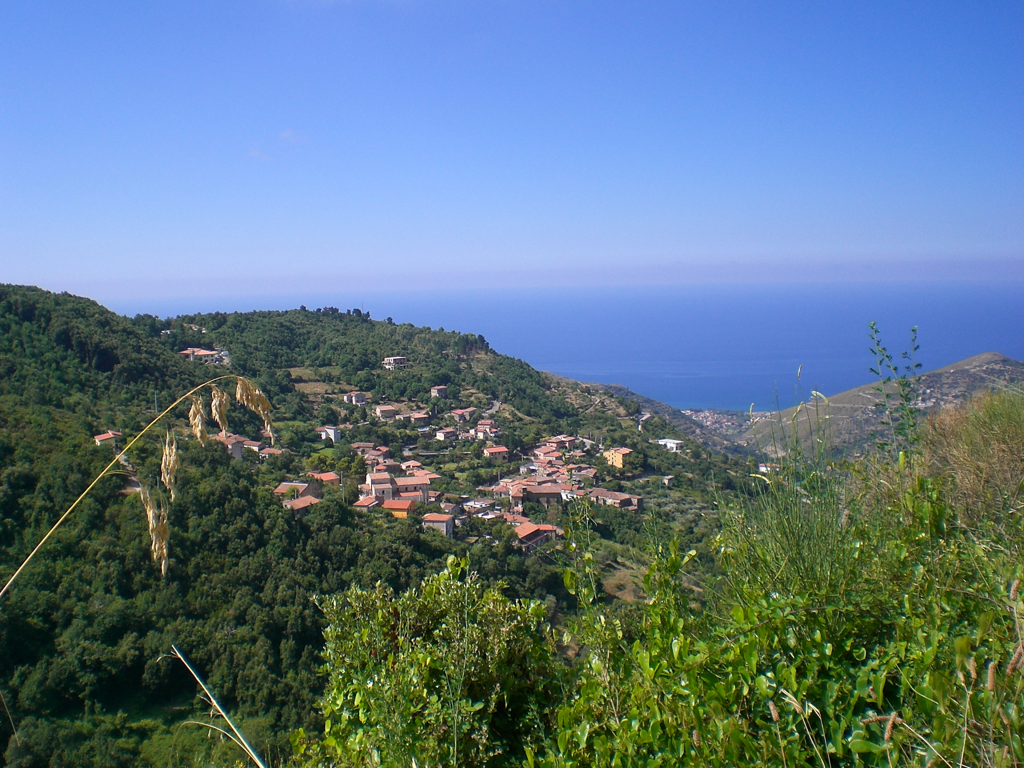 View of Serramezzana